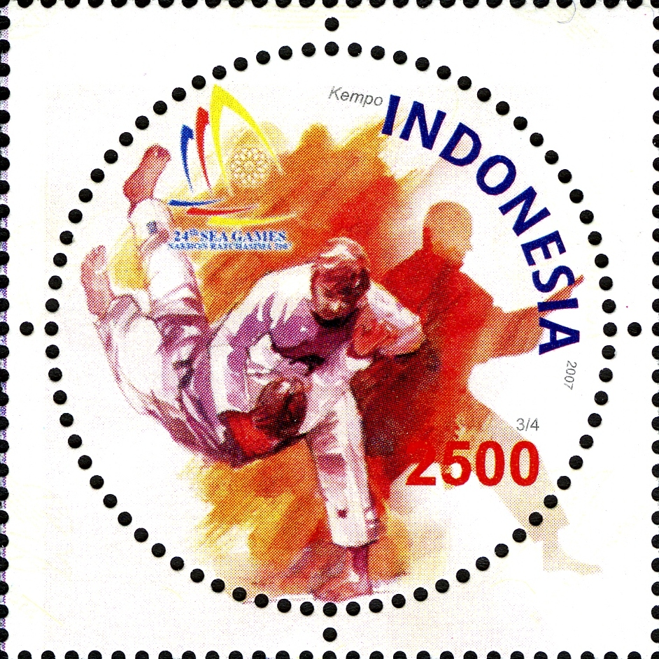 Stamps of Indonesia